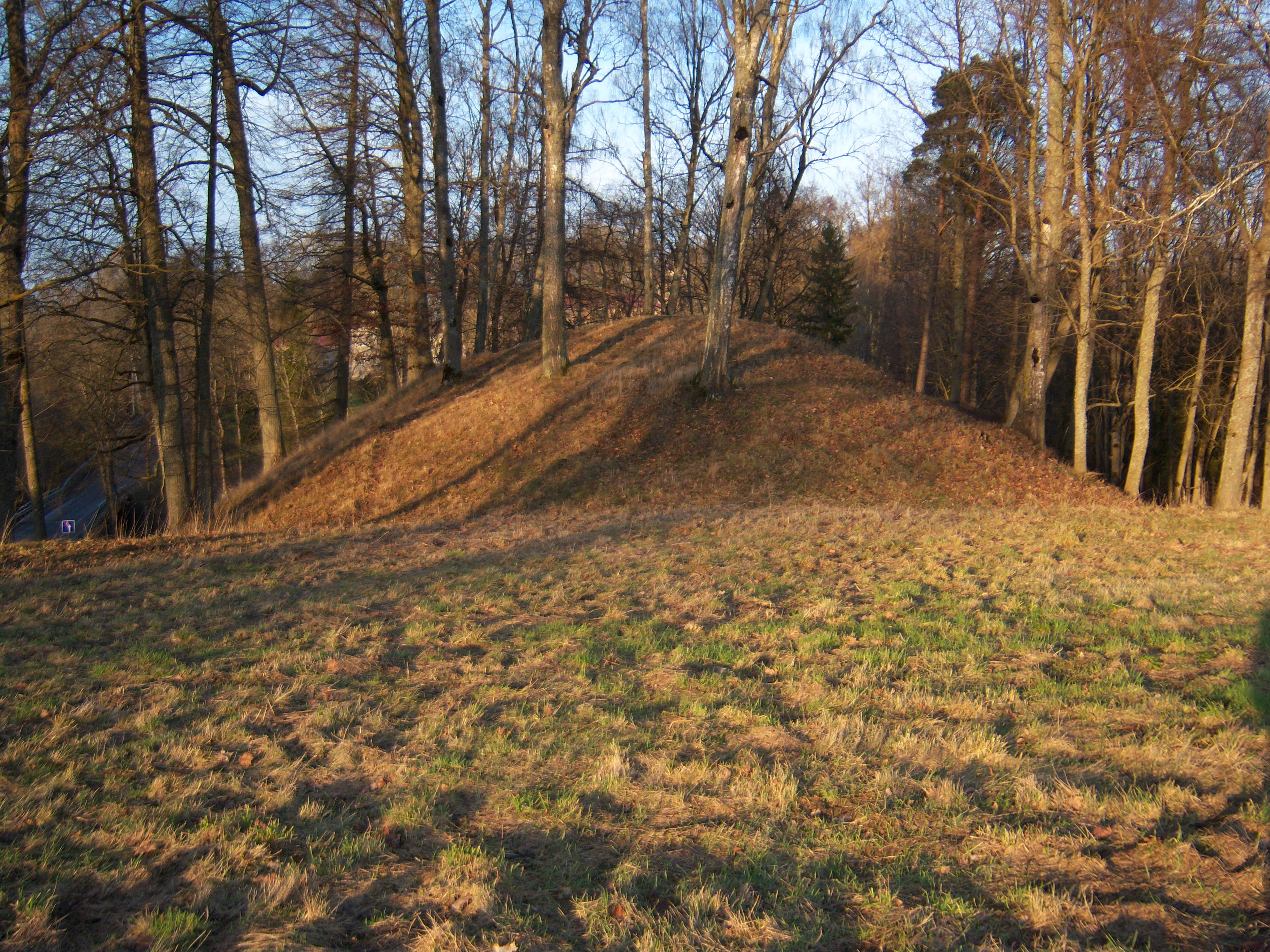 Pagryžuvys Hilfort, Kelmė District, Lithuania